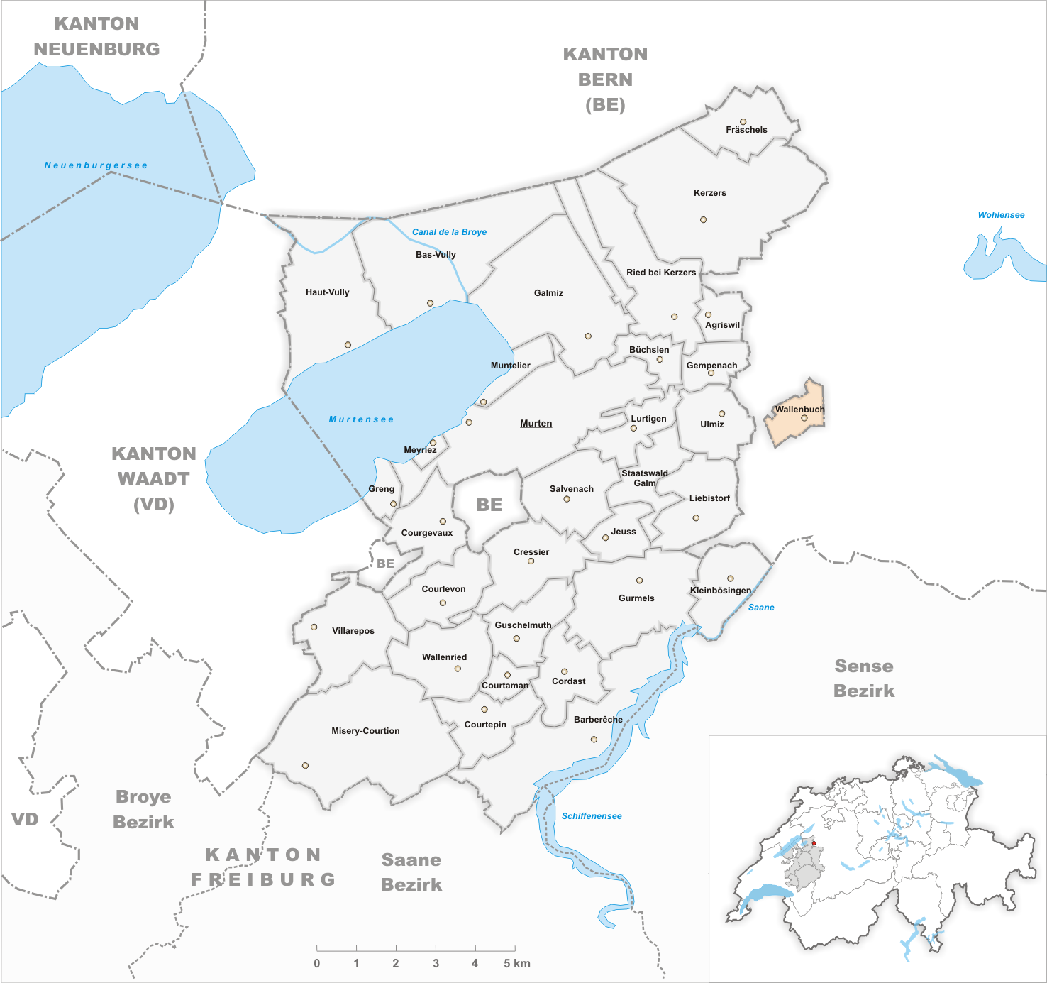 Municipality Wallenbuch Artist: Tschubby